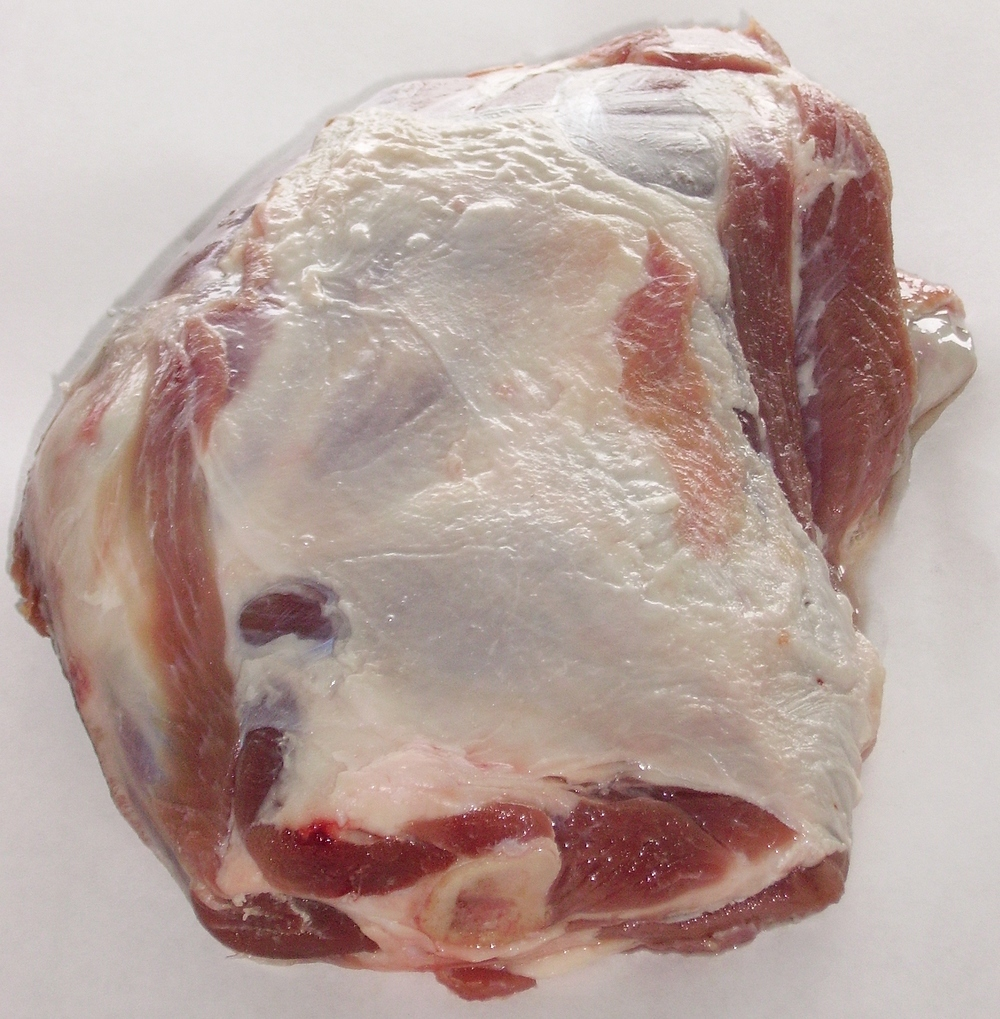 Unfrozen lamb meat (lamb shoulder)